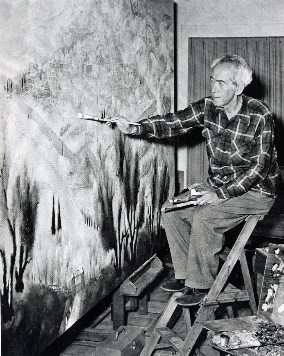 Reuven Rubin (befor 1958)